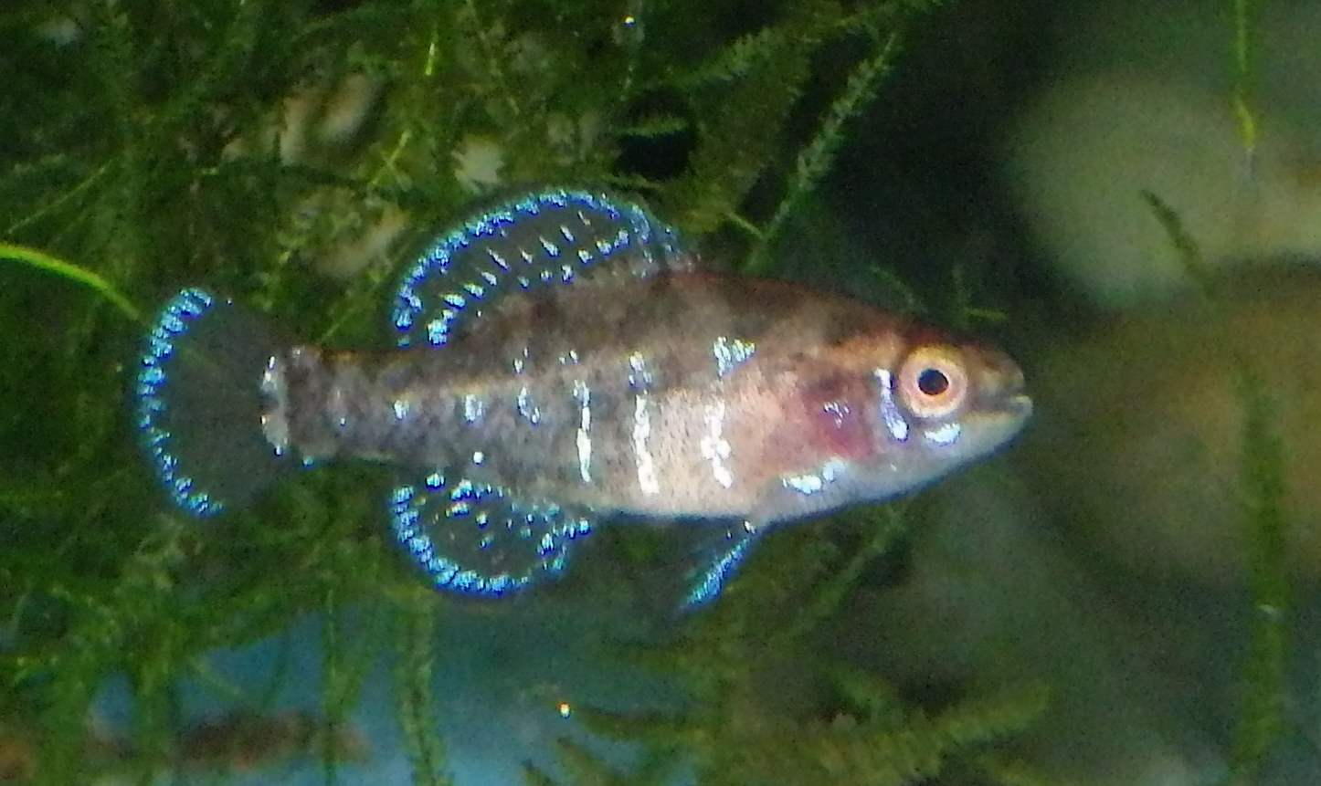 Male Elassoma okefenokee, daytime photograph